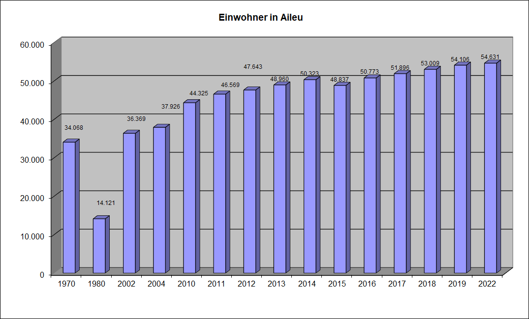 Population in Aileu/East Timor